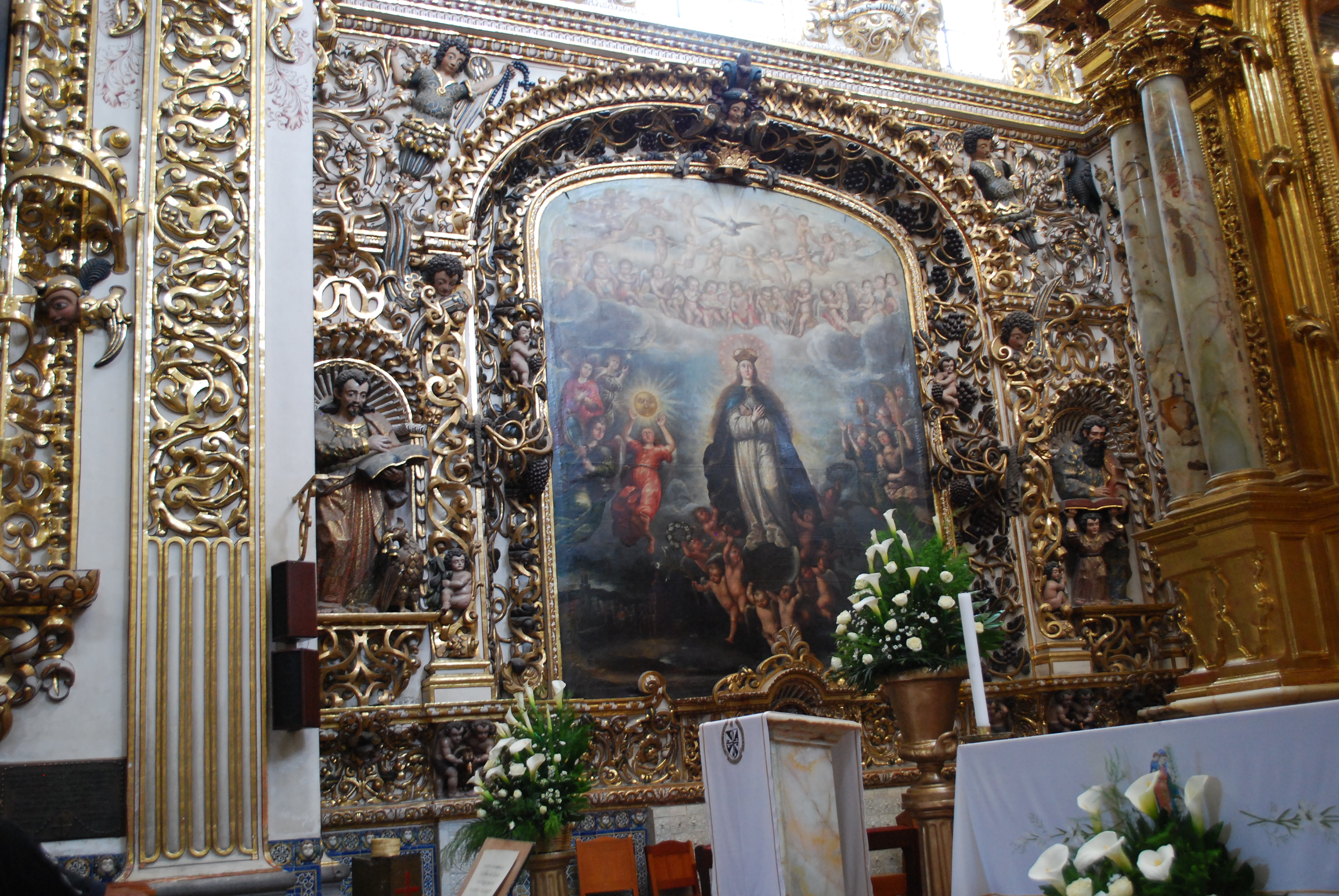 18th century painting of the Virgin Mary at the Capilla del Rosario in Puebla, Mexico